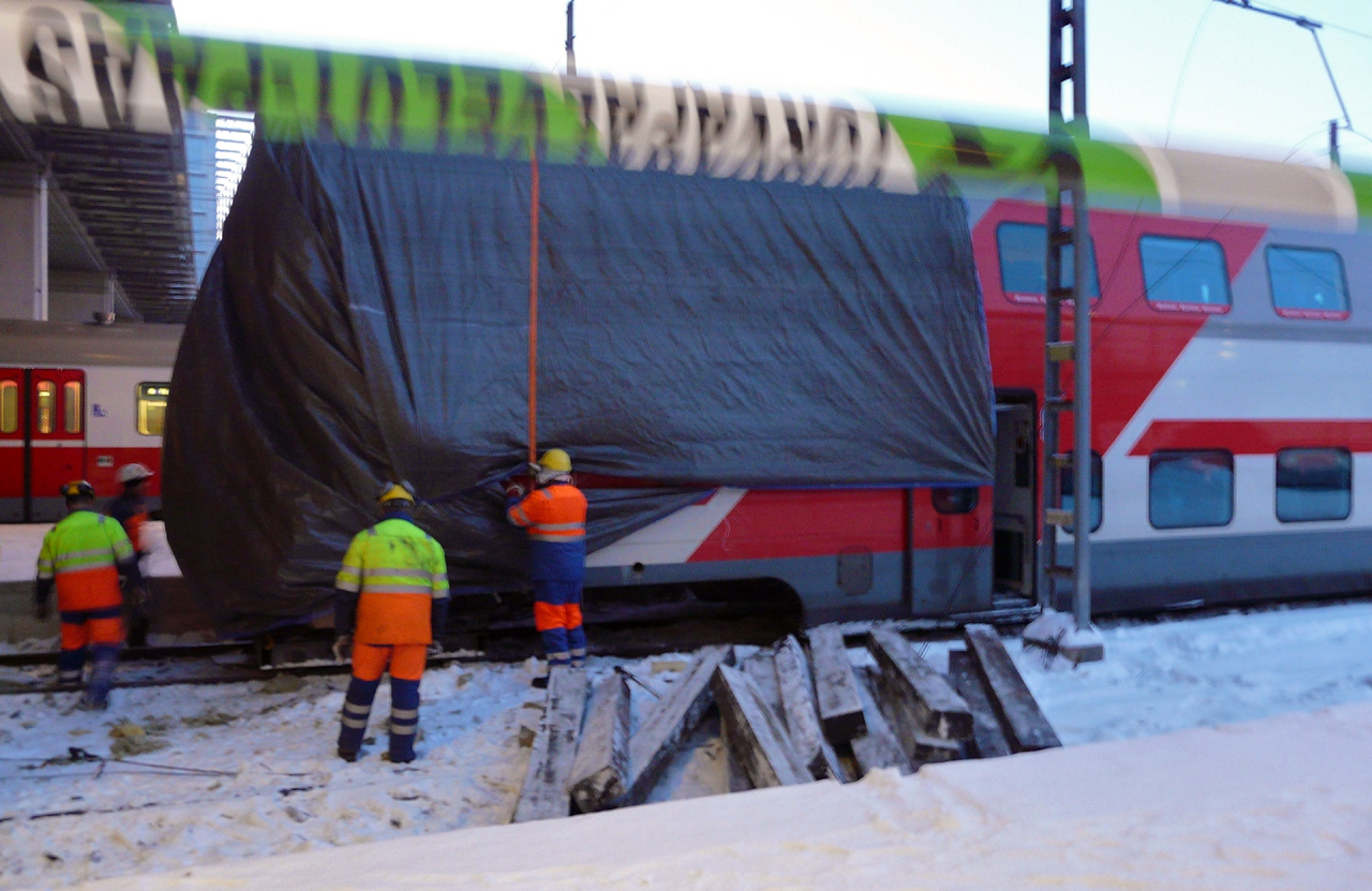 A situation on the following day of a train accident at Helsinki Central railway station which happened in January 4th, 2010. So the picture has been taken in evening in January 5th, 2010.